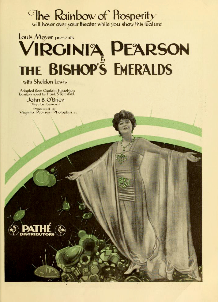 Advertisement for the film The Bishop's Emeralds (1919) with Virginia Pearson published in Moving Picture World, June 1919.